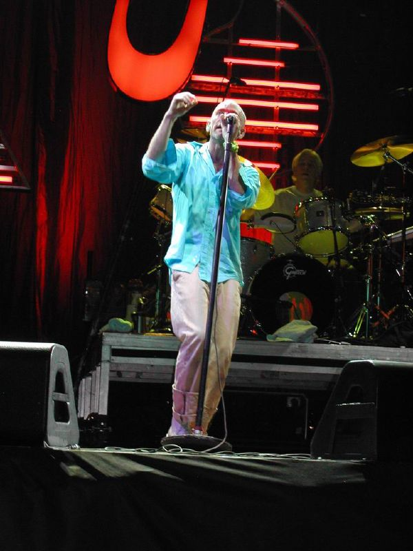 Michael Stipe, lead singer of United States rock band R.E.M., singing in front of the band's drummer in concert in Padova.